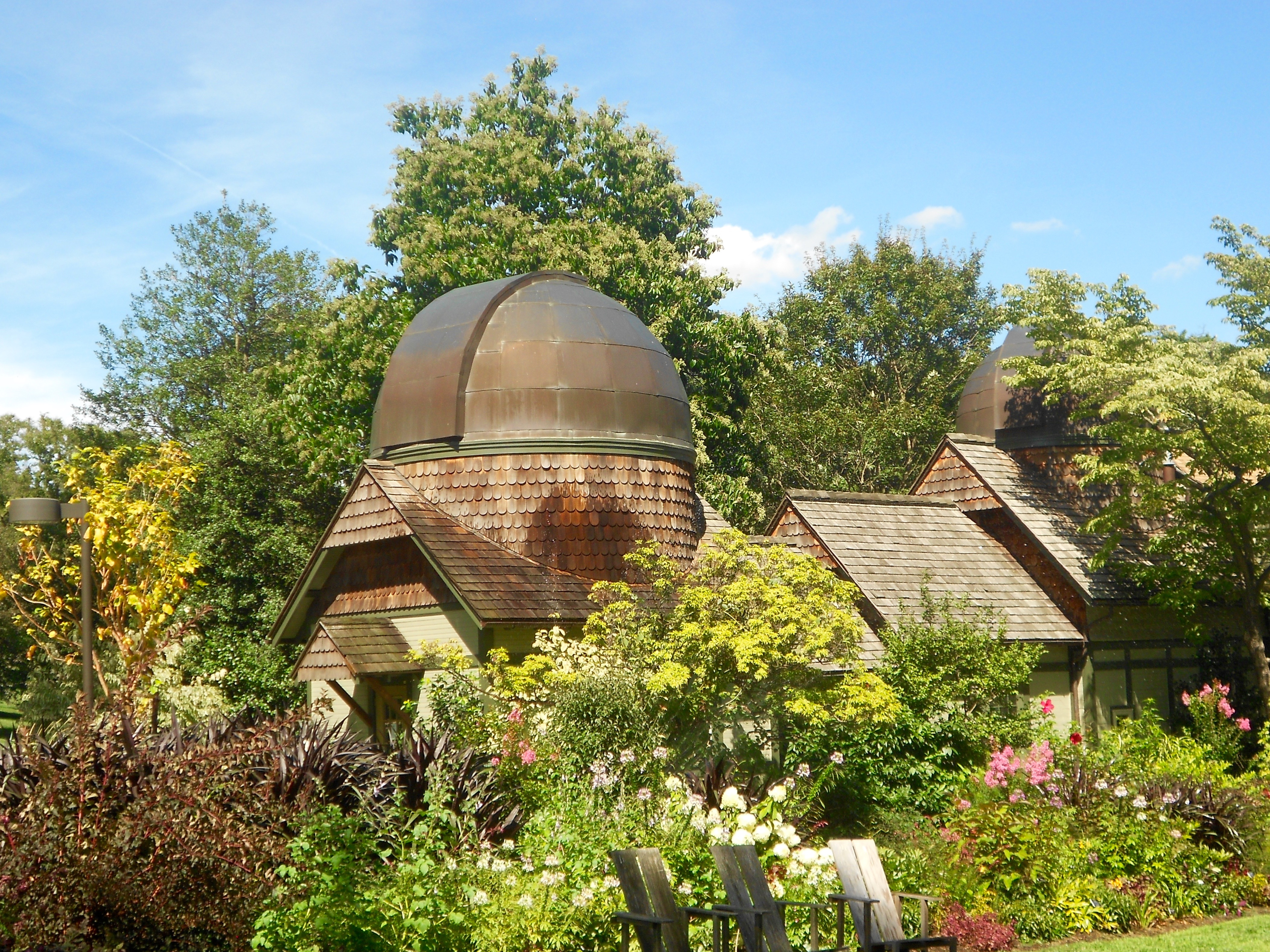 Observatory at Swarthmore College in Swarthmore, Delaware County, Pennsylvania